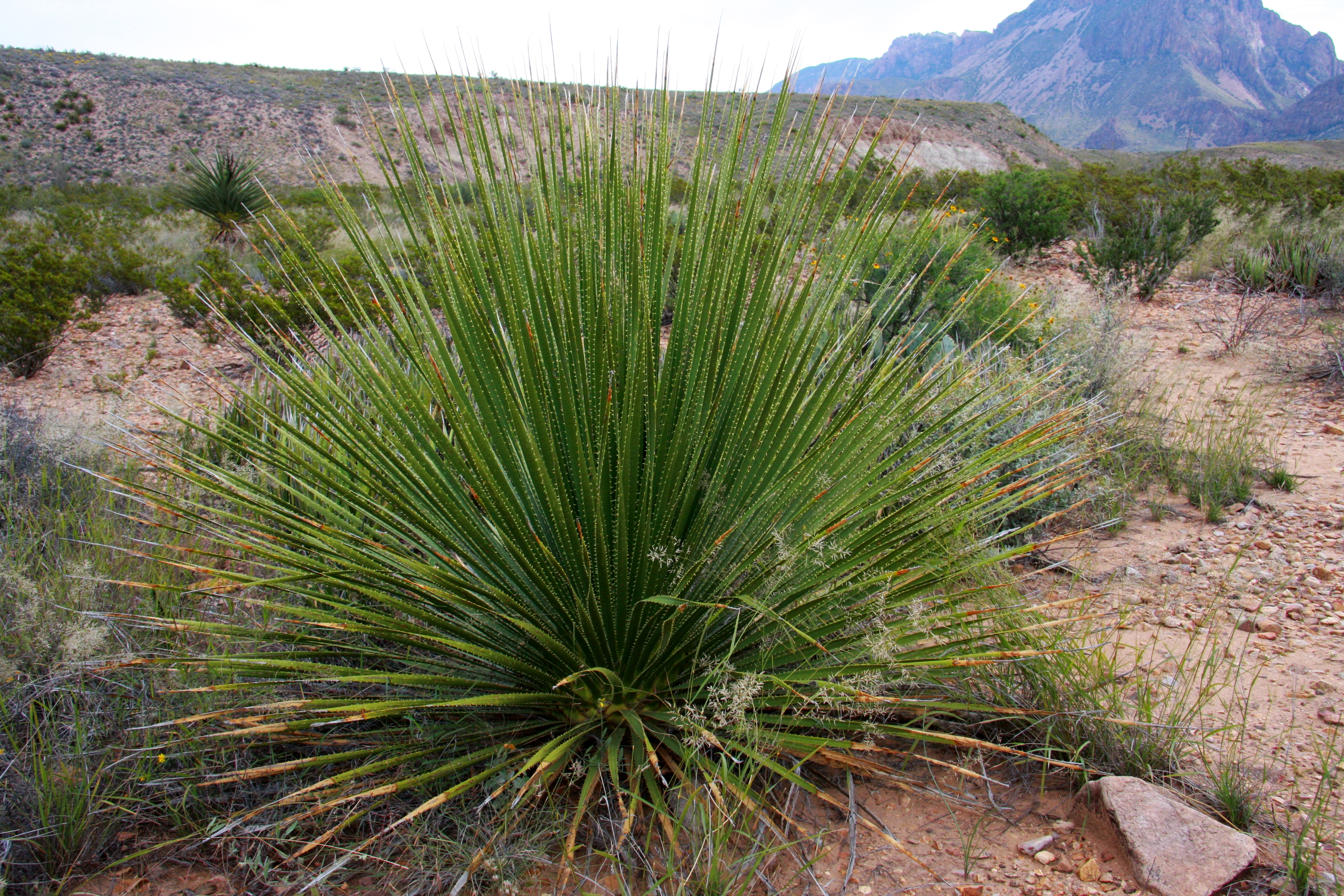 Sotol (Dasylirion liophyllum)